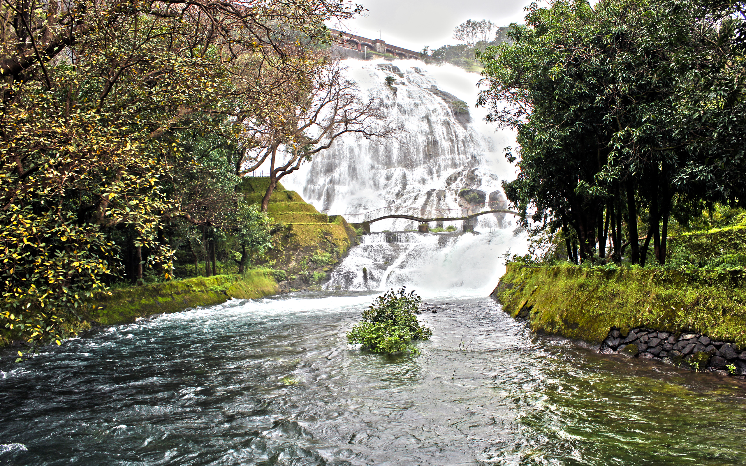 Its an tourist location near bhandardara dam